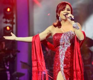 Cantando Rancheras